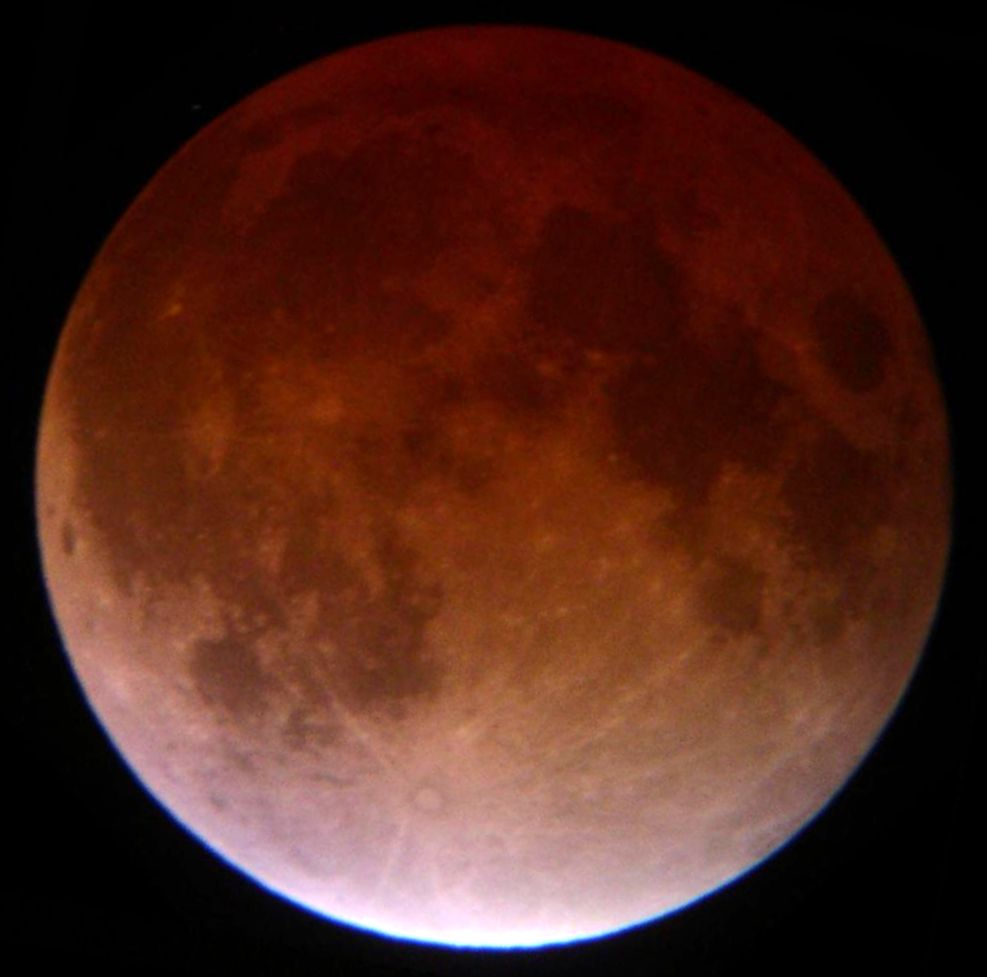 Telescopic photo of total lunar eclipse on November 8, 2003